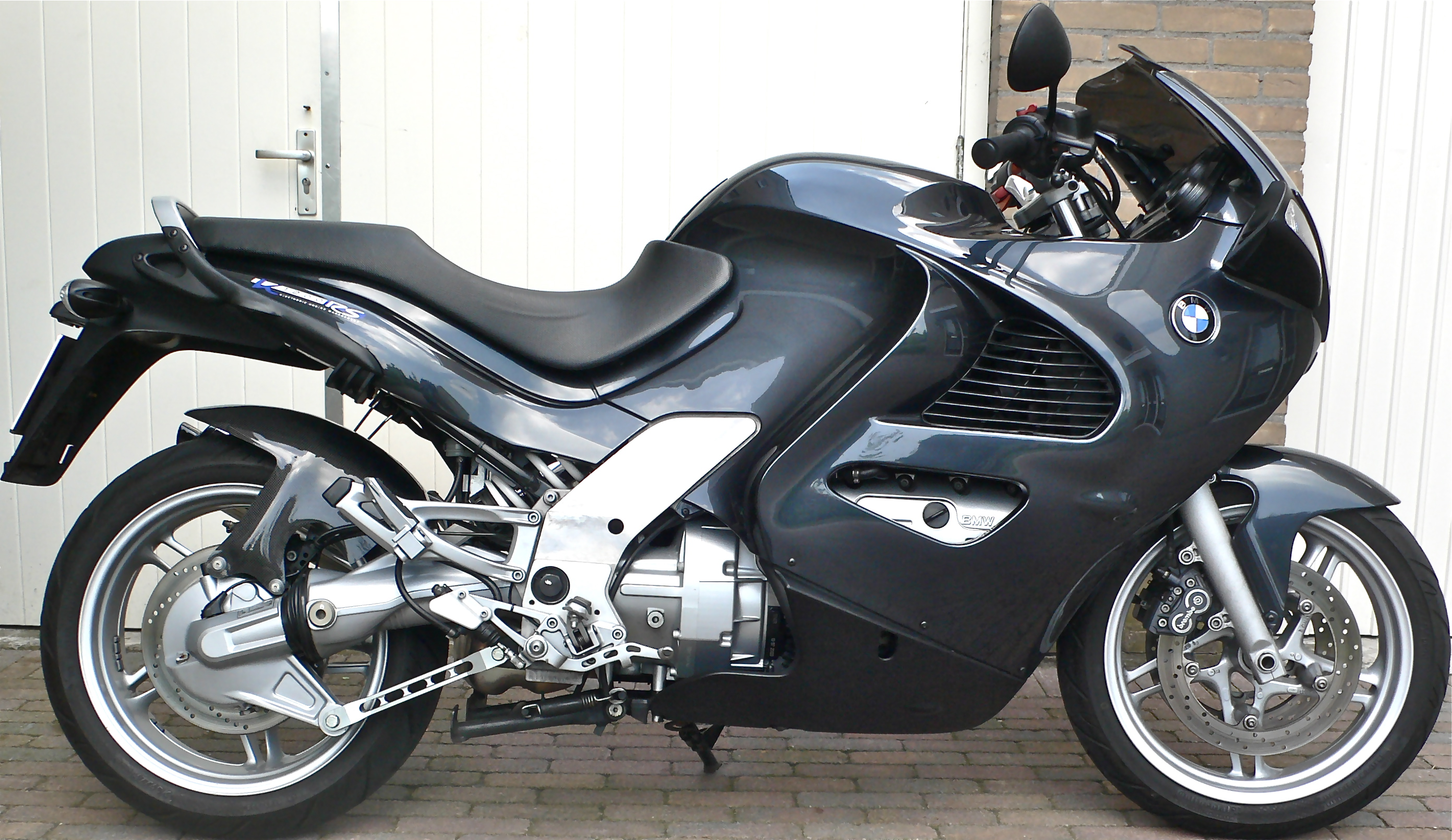 BMW K1200RS motorcycle, 1997, grey